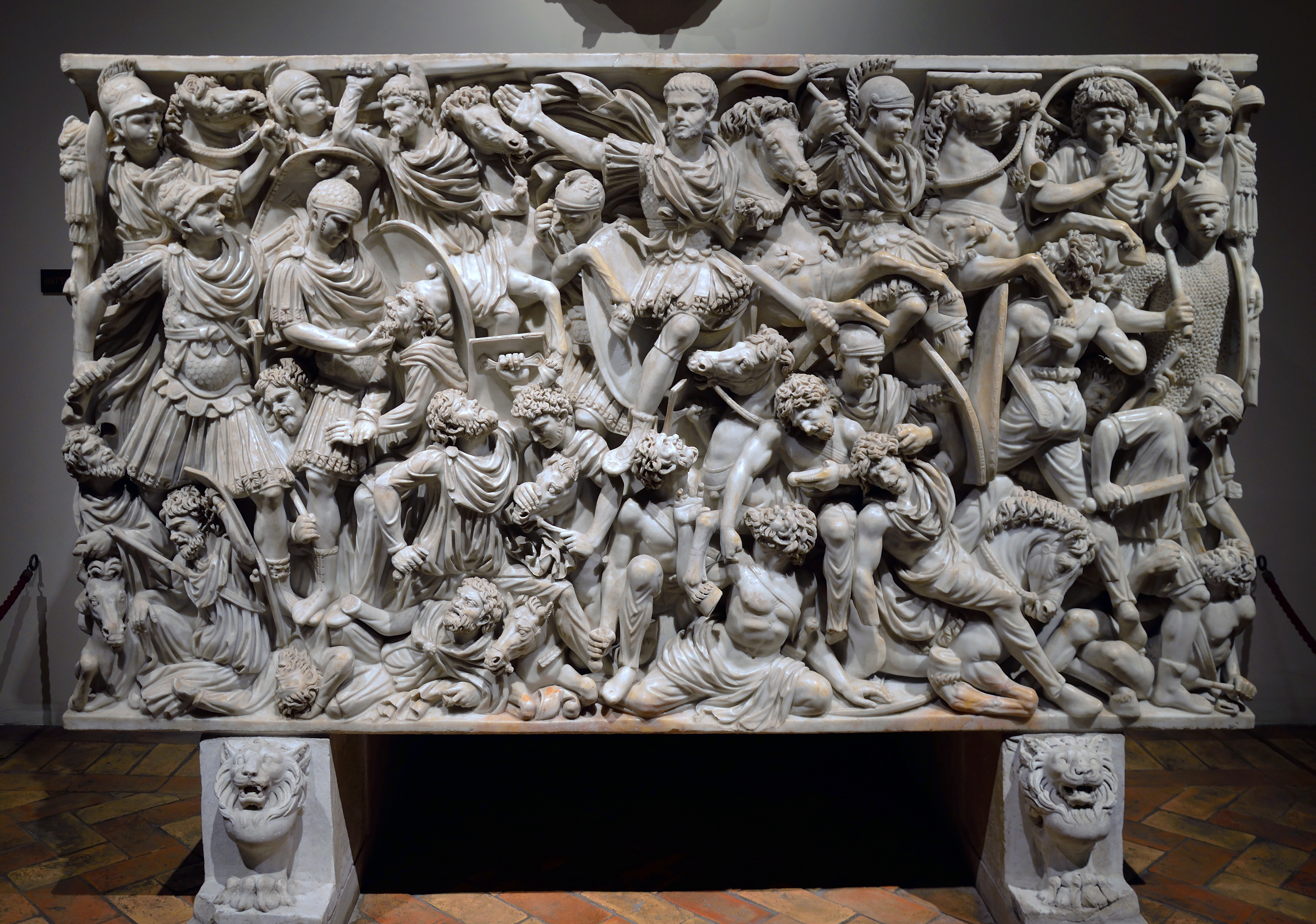 Grande Ludovisi sarcophagus